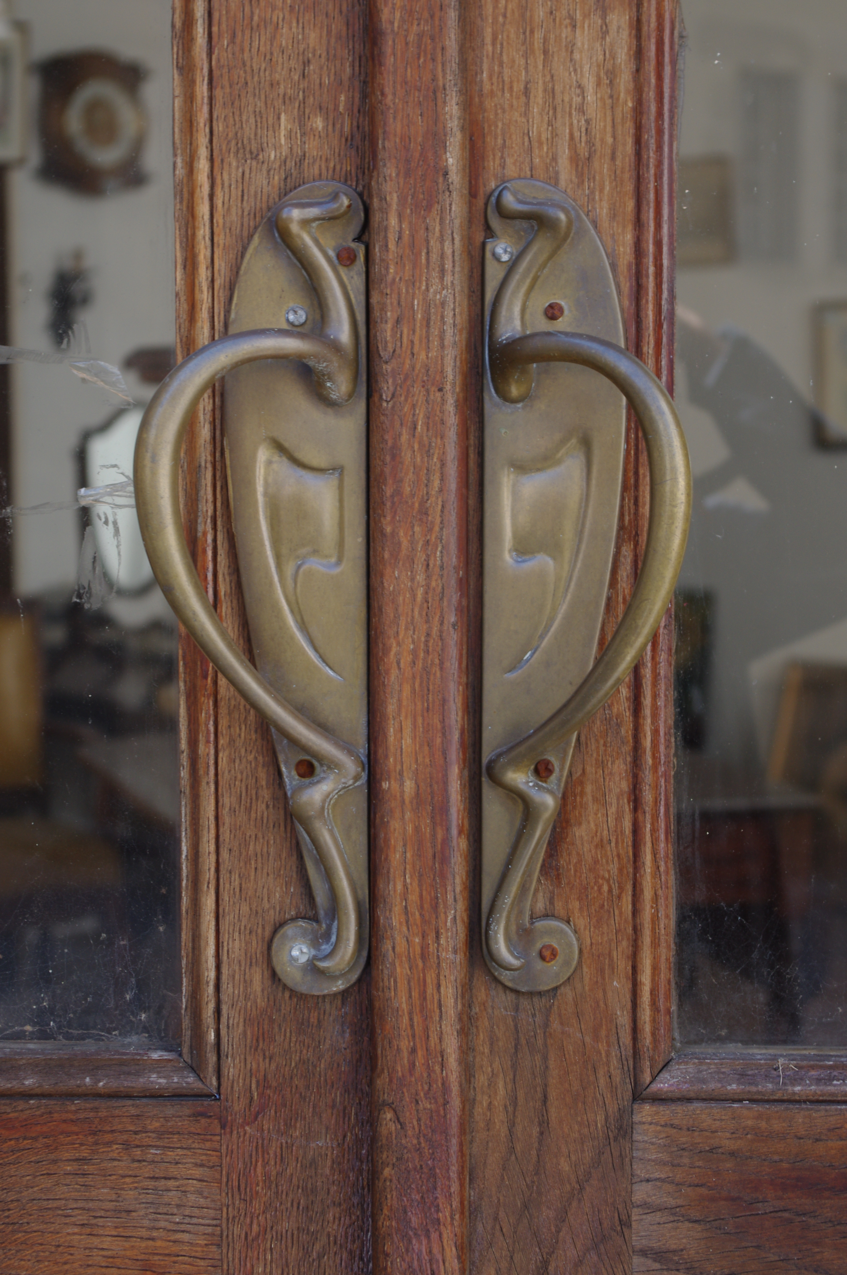 Art Nouveau style door handles in brass (France)